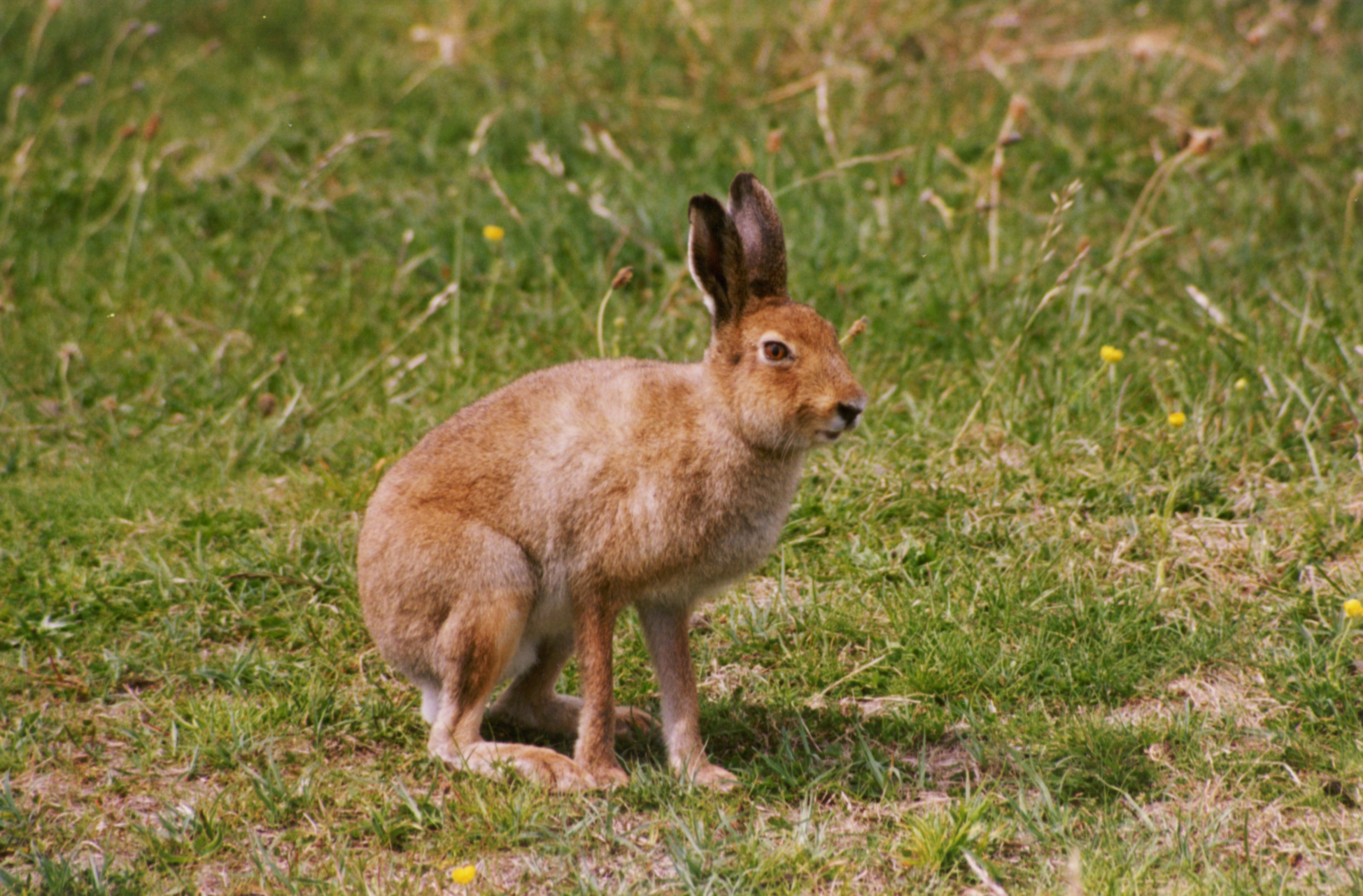 A female Irish mountain hare (Lepus timidus hibernicus) on North Bull Island, Dublin, Ireland, May 1992.